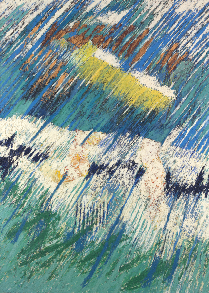 Nepohoda I, olej, plátno, 200 x 145 cm (1989-91-94)